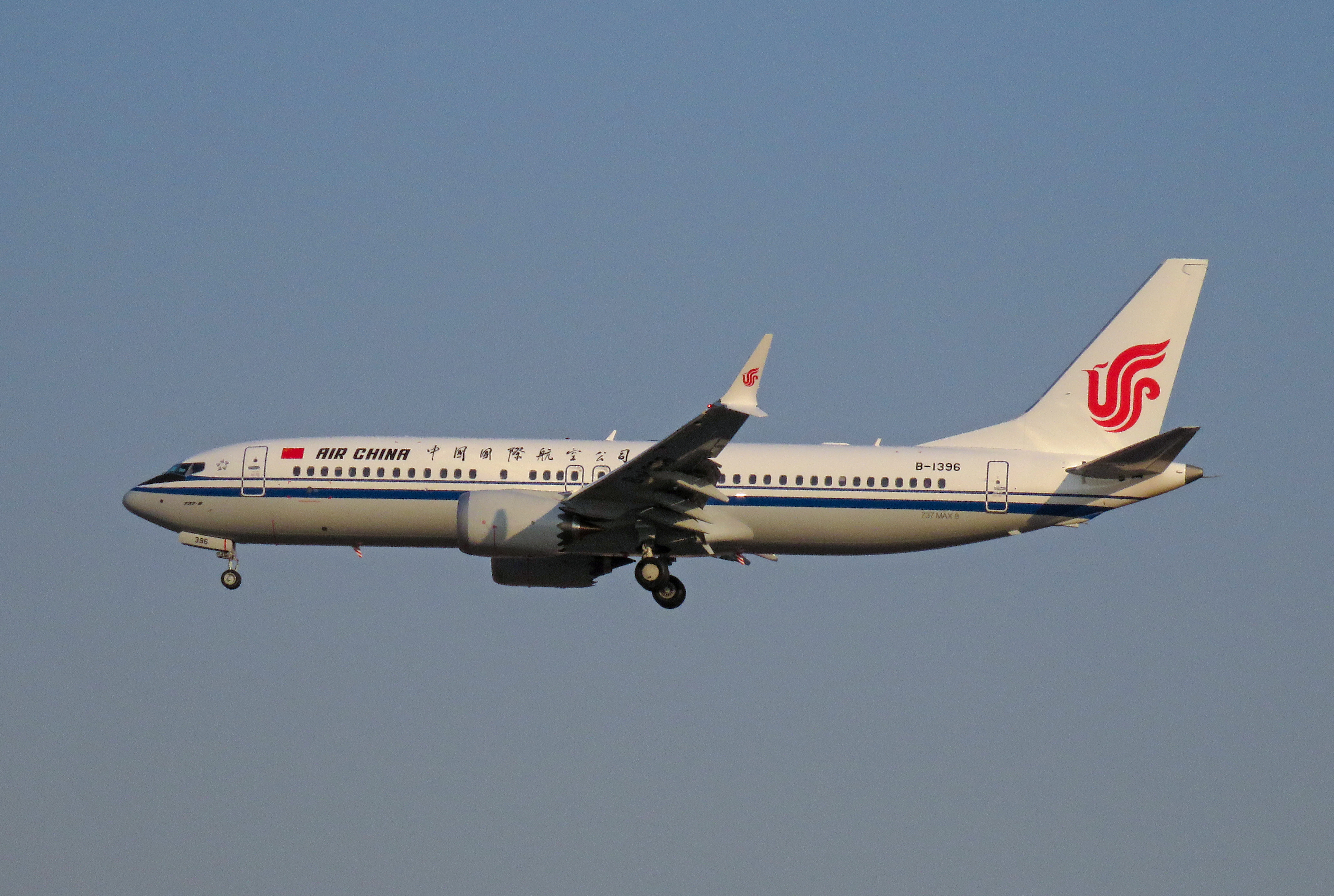 Air China 1596 from Hangzhou. Taken from T3 crew parking lot.